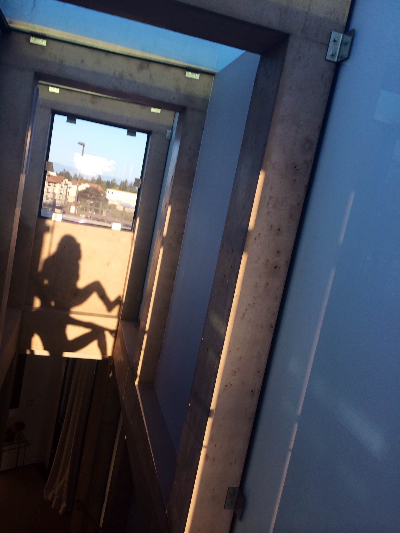 102 University Avenue, Palo Alto, CA. Joseph Bellomo, Architect